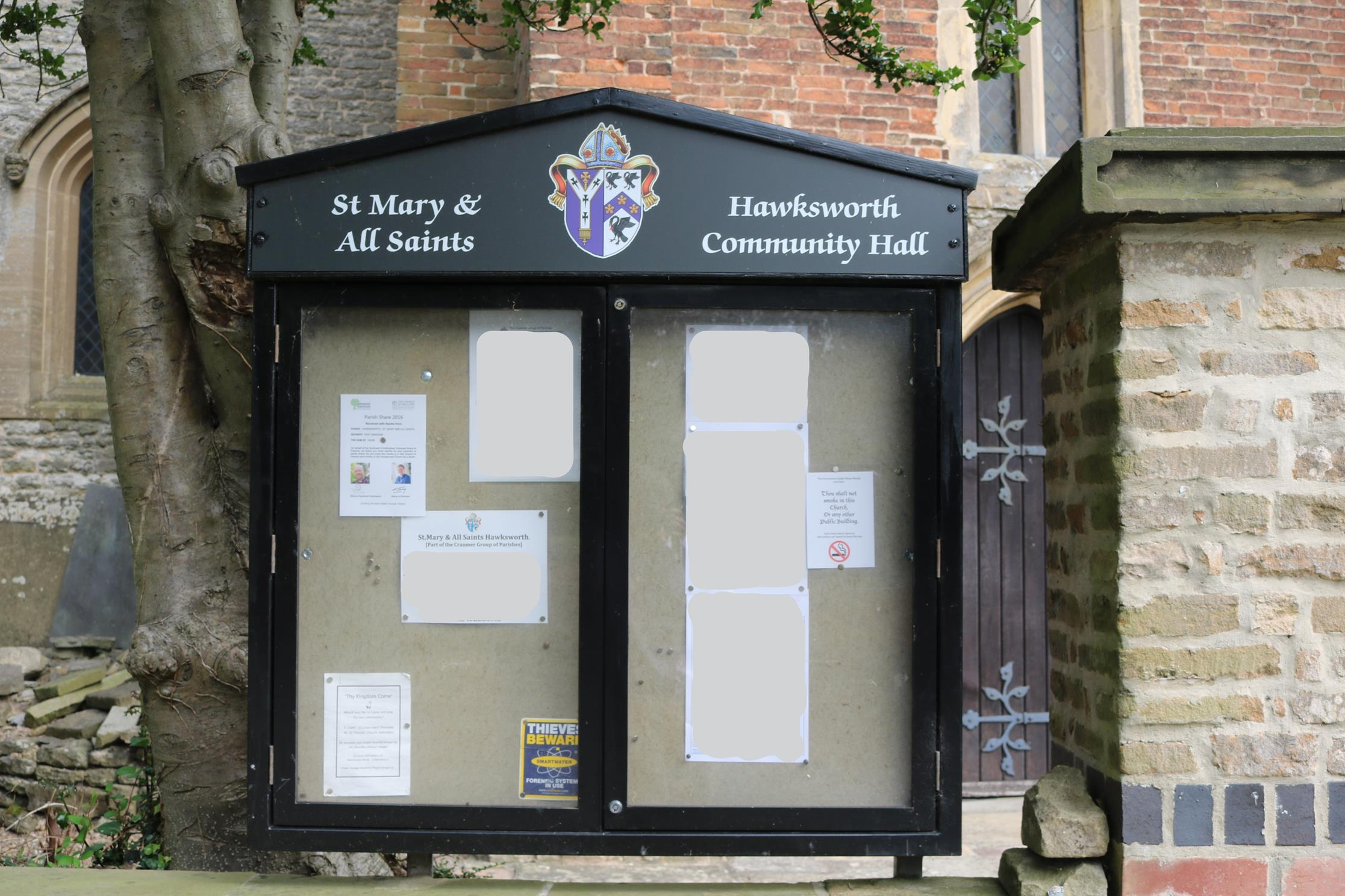 Notice case outside the parish church of St Mary and All Saints, Hawksworth, Nottinghamshire, which also serves as the community hall. Sensitive documents have been blanked.